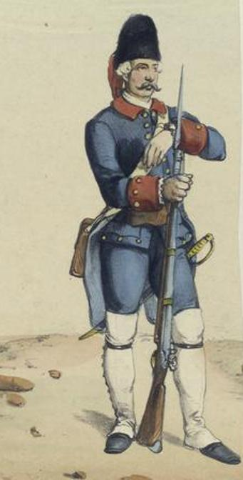 Granadero del regimiento de Ceuta 1768